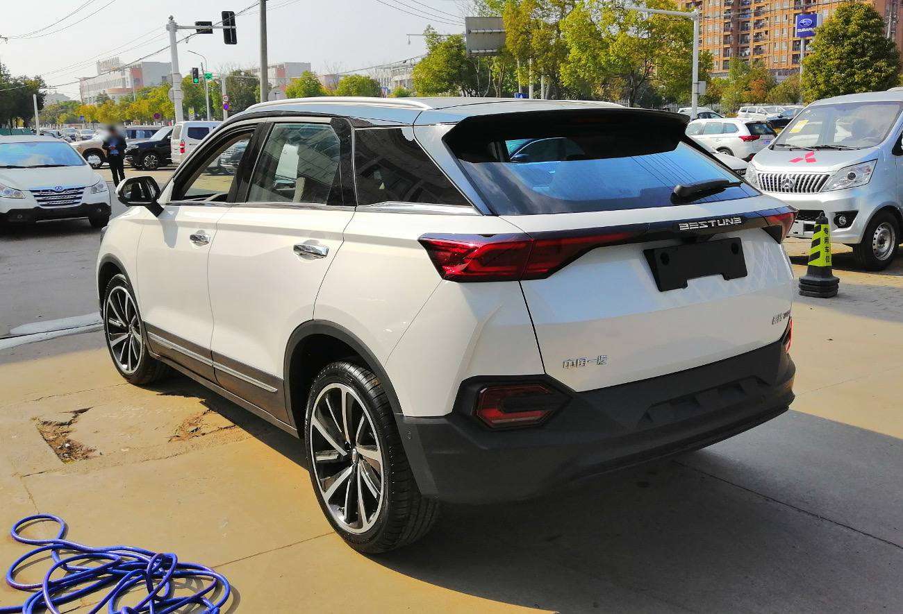 Bestune T77 photographed in Hefei, Anhui province, China.